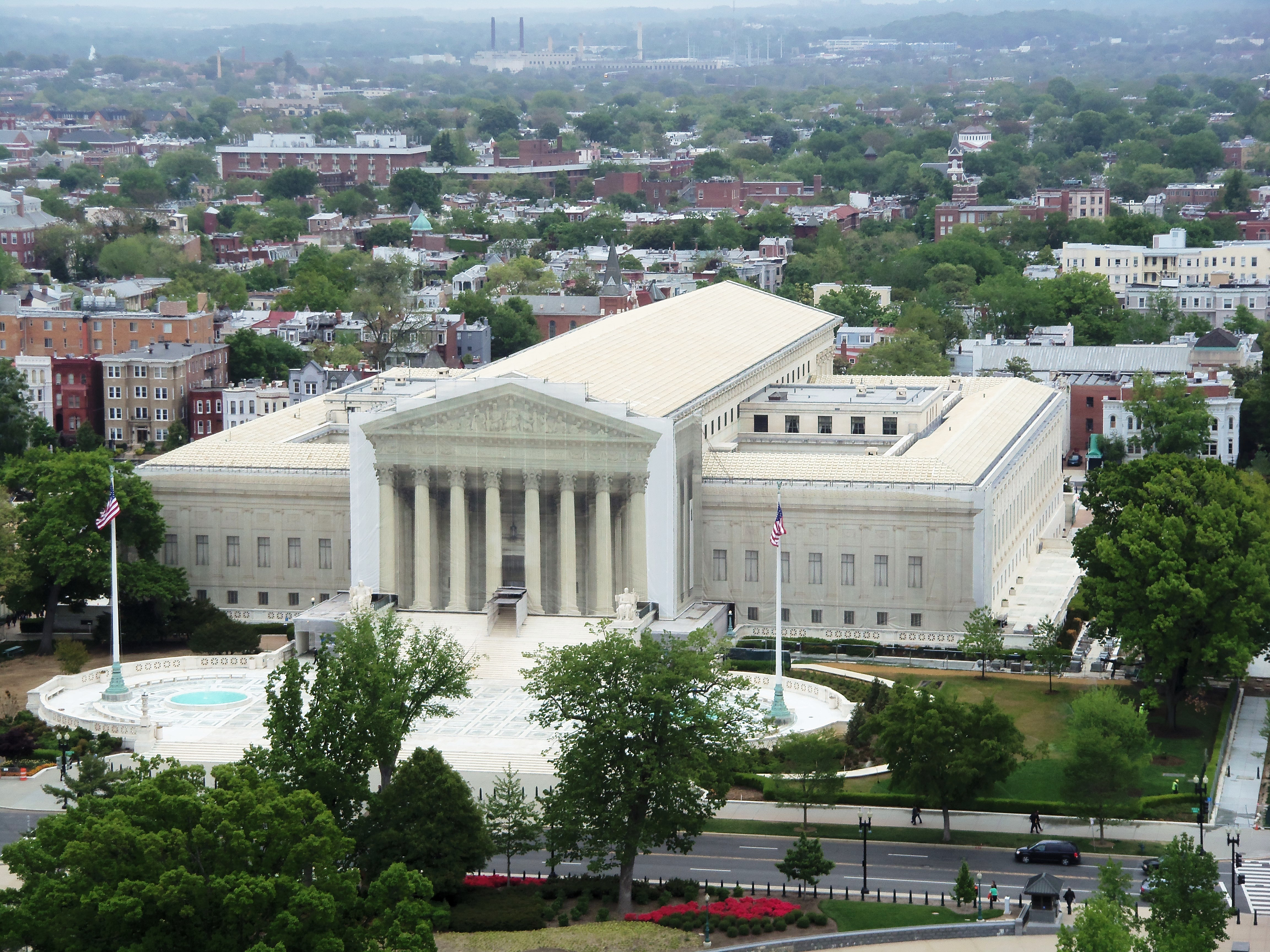 The Supreme Court Building of the United States from the dome of the capitol building. The facade is covered during renovation.